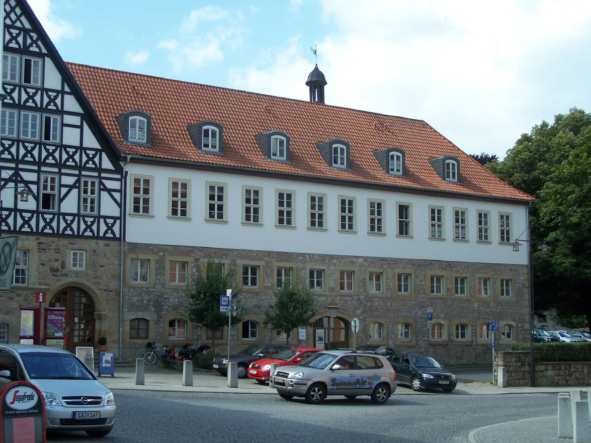 The north front of the Residenzhaus.